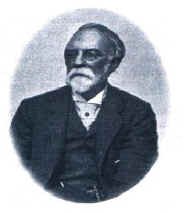 James Brown of Selkirk, also known as J.B. Selkirk